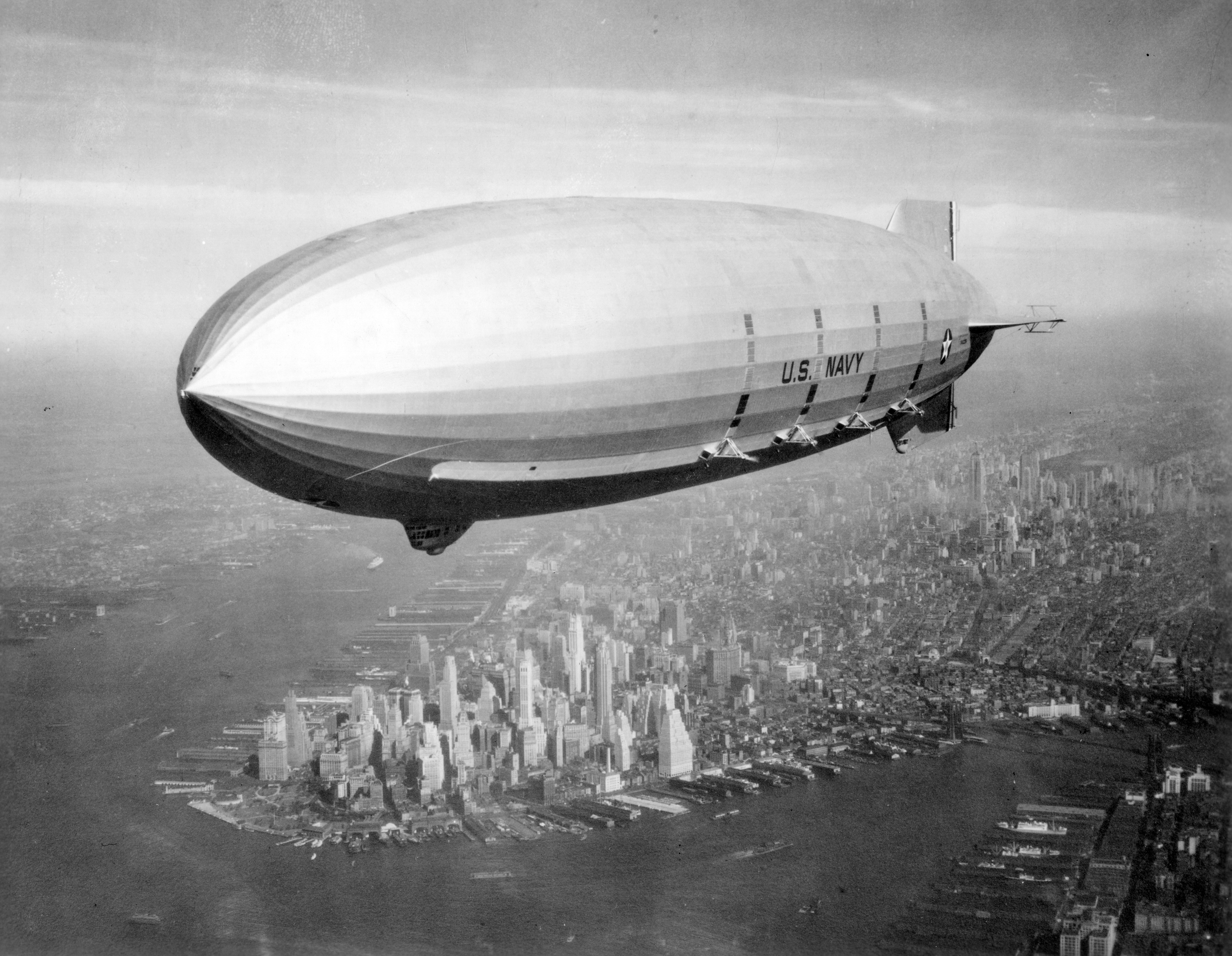 USS Macon flying over New York Harbor, circa Summer 1933. The southern end of Manhattan Island is visible in the lower left center. —Naval Historical Center Removed caption read: Photo # NH 43901 USS Macon over New York City.